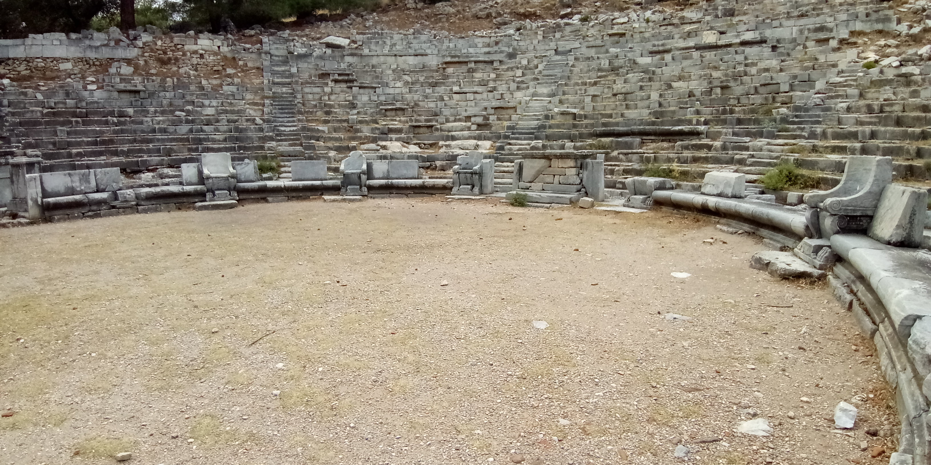 Orchestra, Greek theatre at Priene, looking southeast